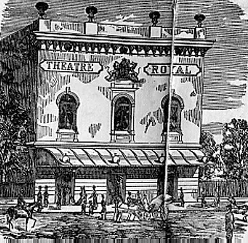 19th century drawing of the New Theatre Royal, Leeds, West Yorkshire, England: built 1867, burned down 1875. The Theatre, Leeds, (built 1771, demolished 1867) was previously on the same site.